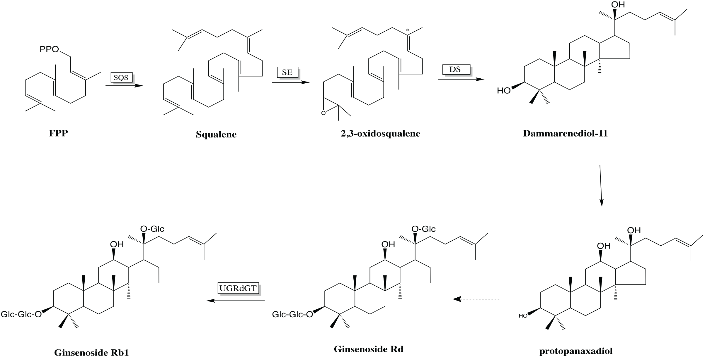 The Biosynthesis of Ginsenoside Rb1, adapted from